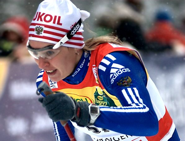 Olga Rotcheva at the Tour de Ski 2010 in Oberhof